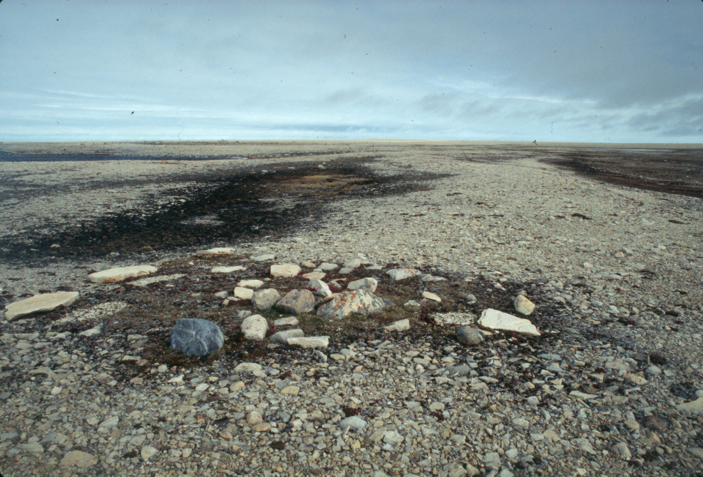 Franklin Summer Camp site 3.3 miles south of Cape Felix, King William Island